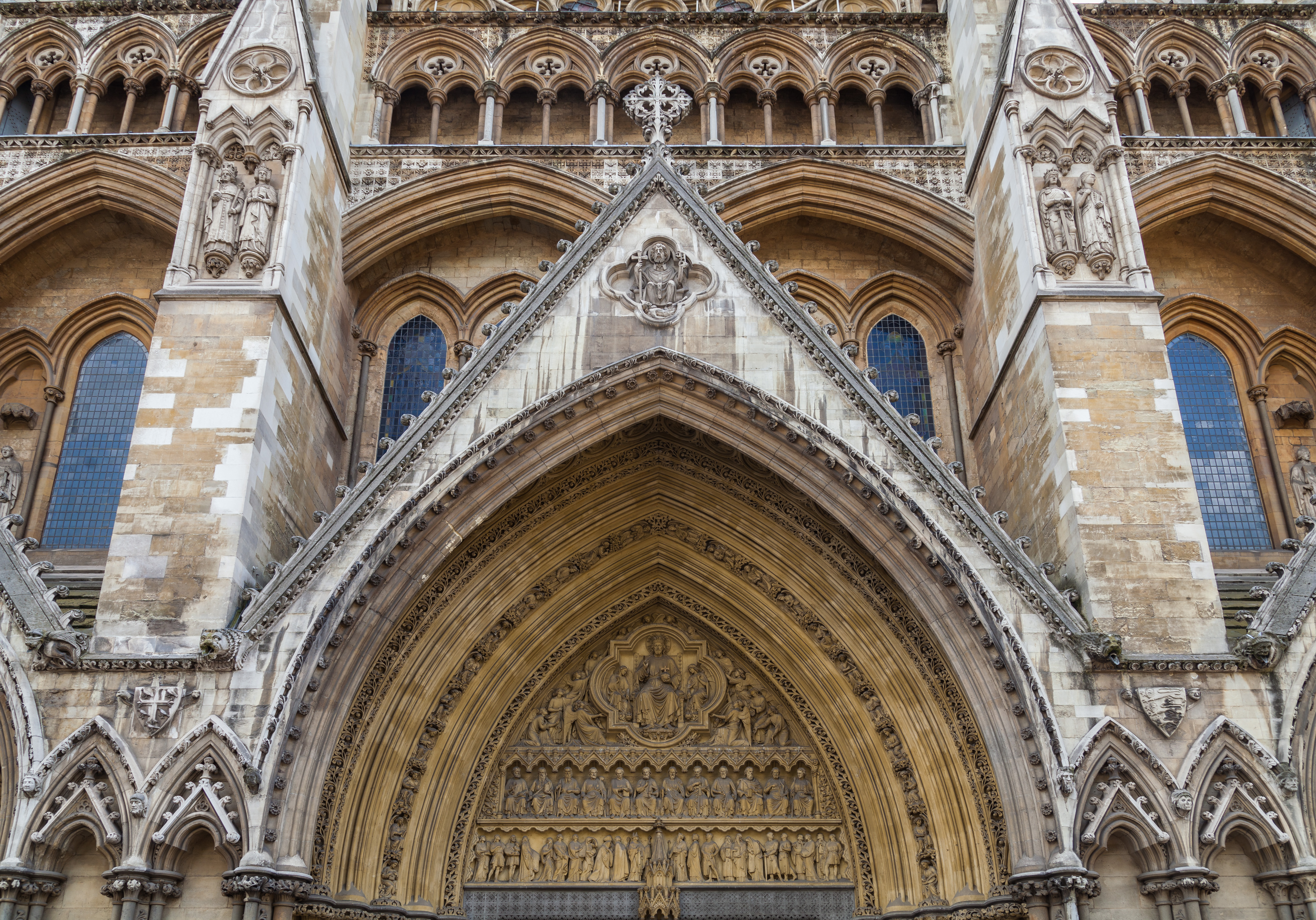 Westminster Abbey, London, England